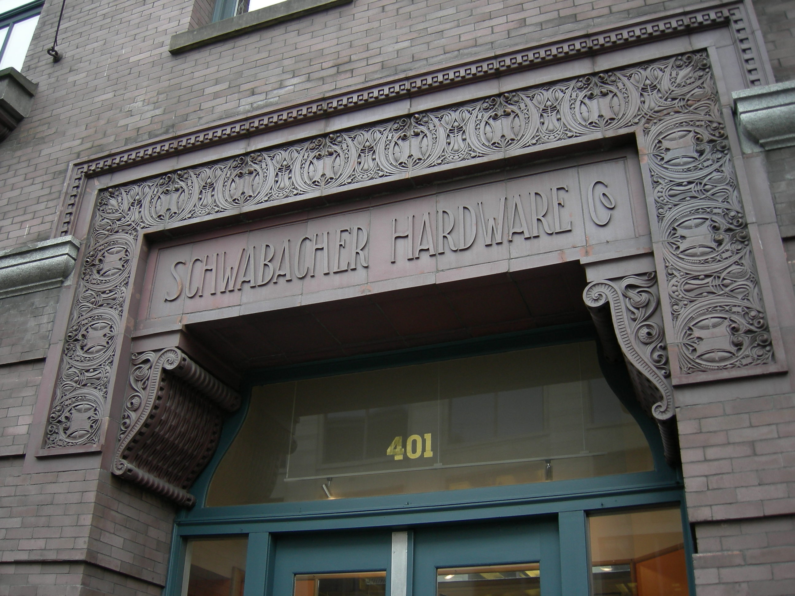 Decoration over main entrance, Schwabacher Hardware Company Building / Pacific Marine Schwabacher Building, 401 1st Ave S, Pioneer Square neighborhood, Seattle, Washington, USA. Built 1906. This former warehouse is now part of Merrill Place Condominiums. For more about this building, see Summary for 401 1st AVE / Parcel ID 5479600000, Seattle Department of Neighborhoods.